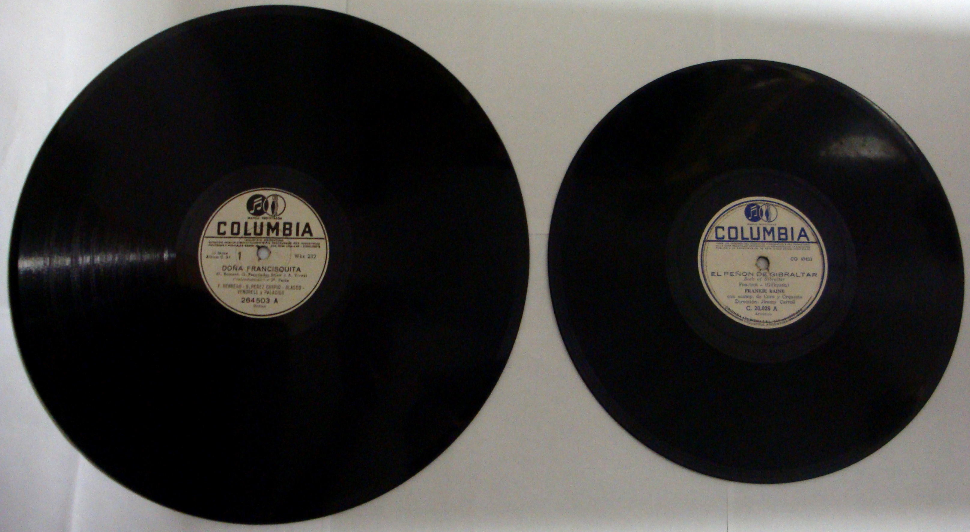 Old records of 12 inches and 10 inches, published by Columbia Records.